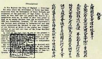 Gojong of Korea's retraction of the Eulsa Treaty, sent to England in 1905. Retrieved from [1] Partial transcription: (Translation) To His Majesty the King of England -- Greeting[s]: For many years the Government of Korea has born relations with the Government of Great Britain and evidences of the good-will of that Power. In this _____ we feel that all people who desire to ___ sympathize with us. In order to show that great in ___ done ___ we hereby declare that the so-called treaty [of] 1905 was fraudulent, because, (1) the signatures of the Cabinet were obtained by intimidation and ___ authorised the ____ to sign the document, of the Cabinet at which it was signed was illegal, neither at our call nor that of the Prime Minister ____ themselves. In view of the fact that we are at the present a dependent Power .... yes to re-establish .... ___ .... desired will fully accept .... In witness whereof we .... the Imperial ___ Once .... 親書 大韓國太皇帝 _ _ 致書于 大英國 _ 印度國大皇帝陛下 ....